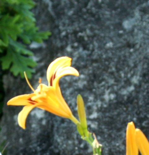 Botanical garden, Chisinau